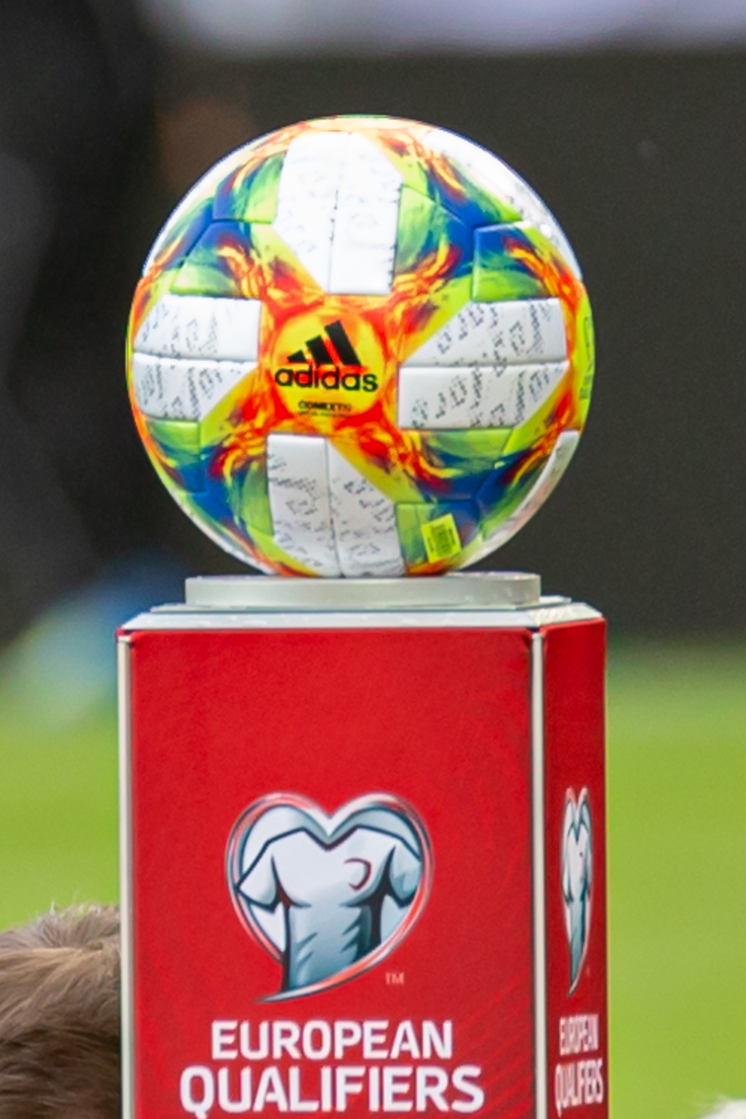 UEFA Euro 2020 qualifier Germany-Estonia